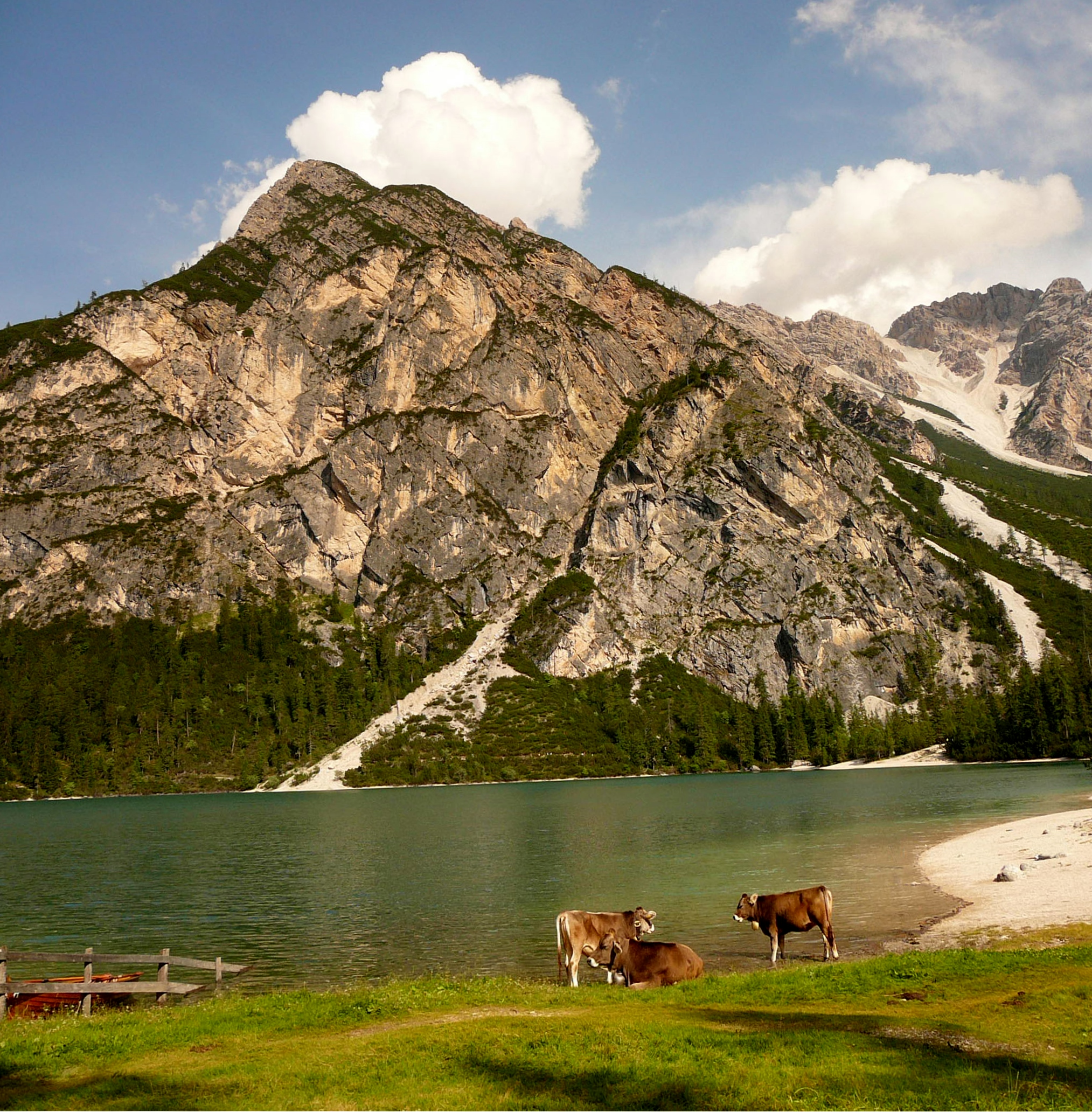 Lago di Braies (other)